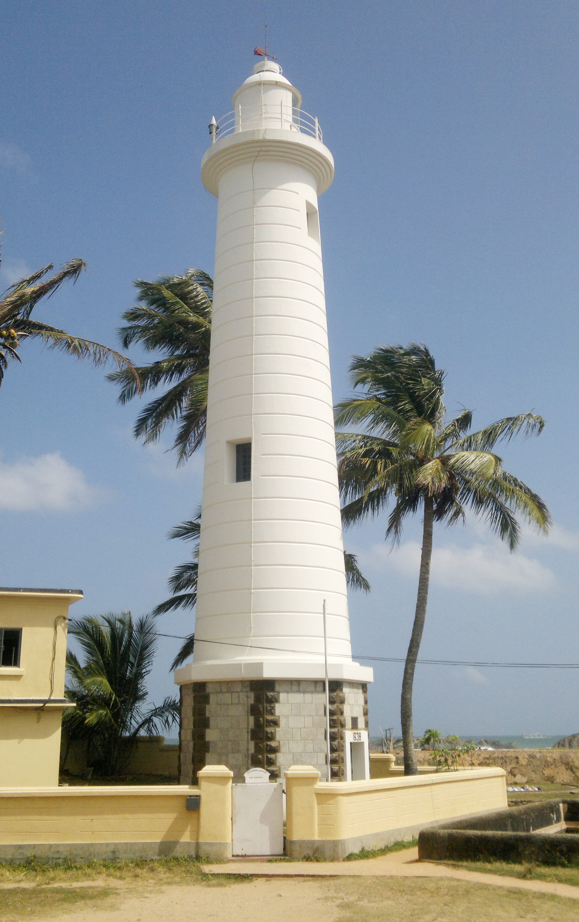 light house built in galle dutch fort